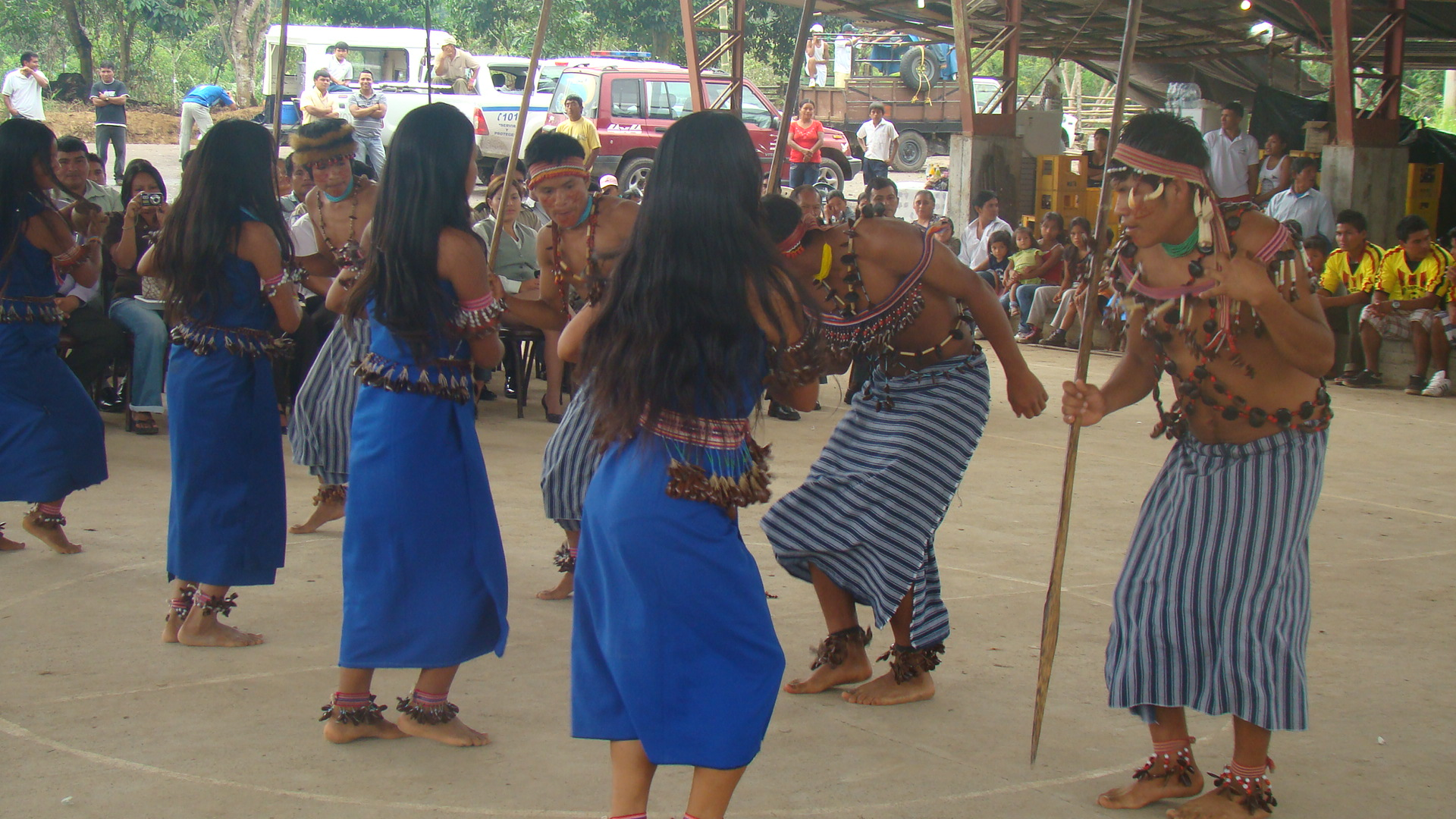 Shuar Dance in Logroño, Ecuador